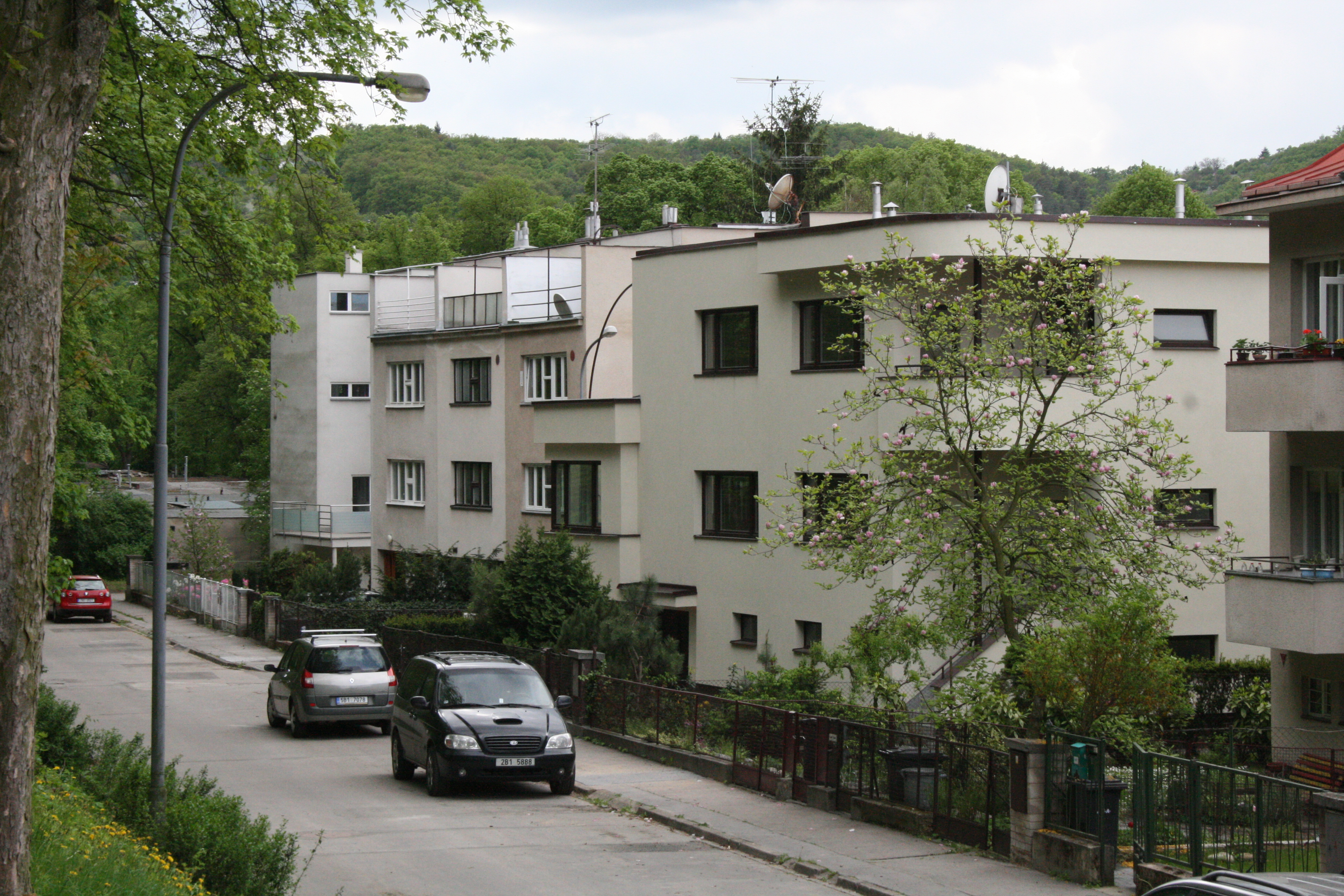 "Nový dům" (New House) settlement - 16 functionalist houses built in 1928 on occasion of an annual exhibition of contemporary culture, Brno, Czech Republic. Česky: Kolonie Nový dům - obytný komplex 16 funkcionalistických rodinných domků zbudovaných v roce 1928 v rámci jubilejní výstavy soudobé kultury. Šmejkalova ulice, Brno-Žabovřesky.